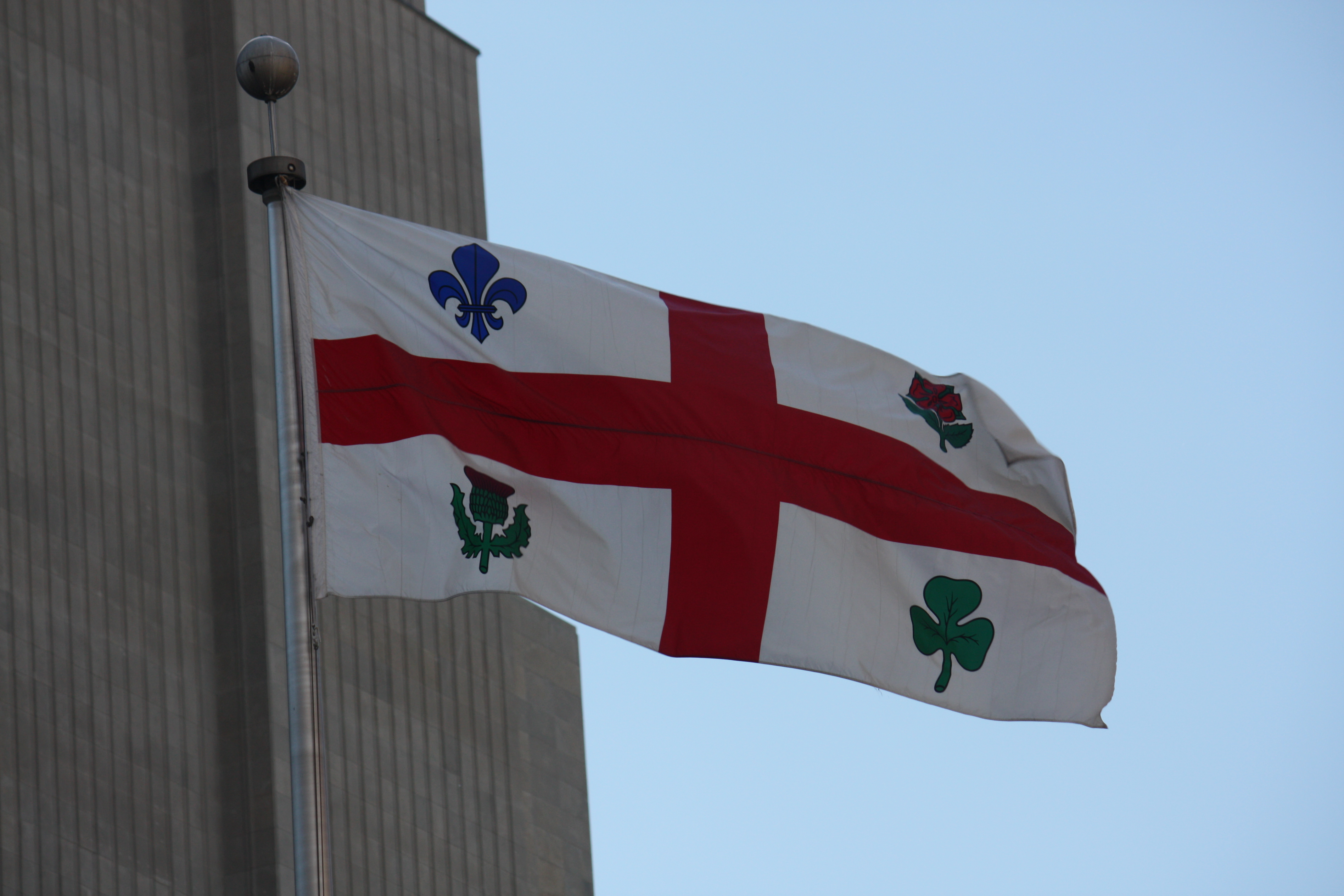 The flag of Montréal, Québec, Canada, flying in downtown Montréal.